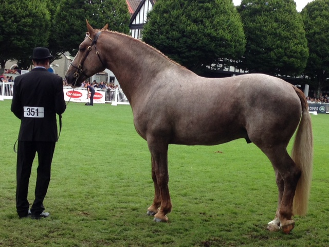 Dunsandle Diamond at the 2016 Dublin Horse Show, Irish Draught Stallions class. Roan Class 1 Irish Draught Stallion, from Drumhowan Stud, Castleblaney, Co. Monaghan. (IHR 4517027)